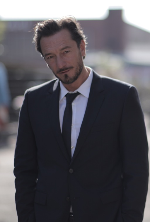 Thomas Hengesbach (2013)